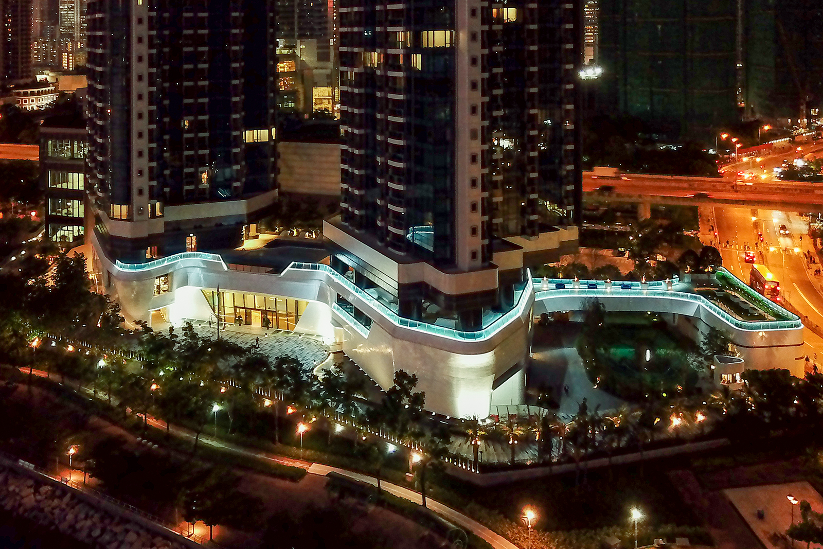 The Pavilia Bay Outside night view